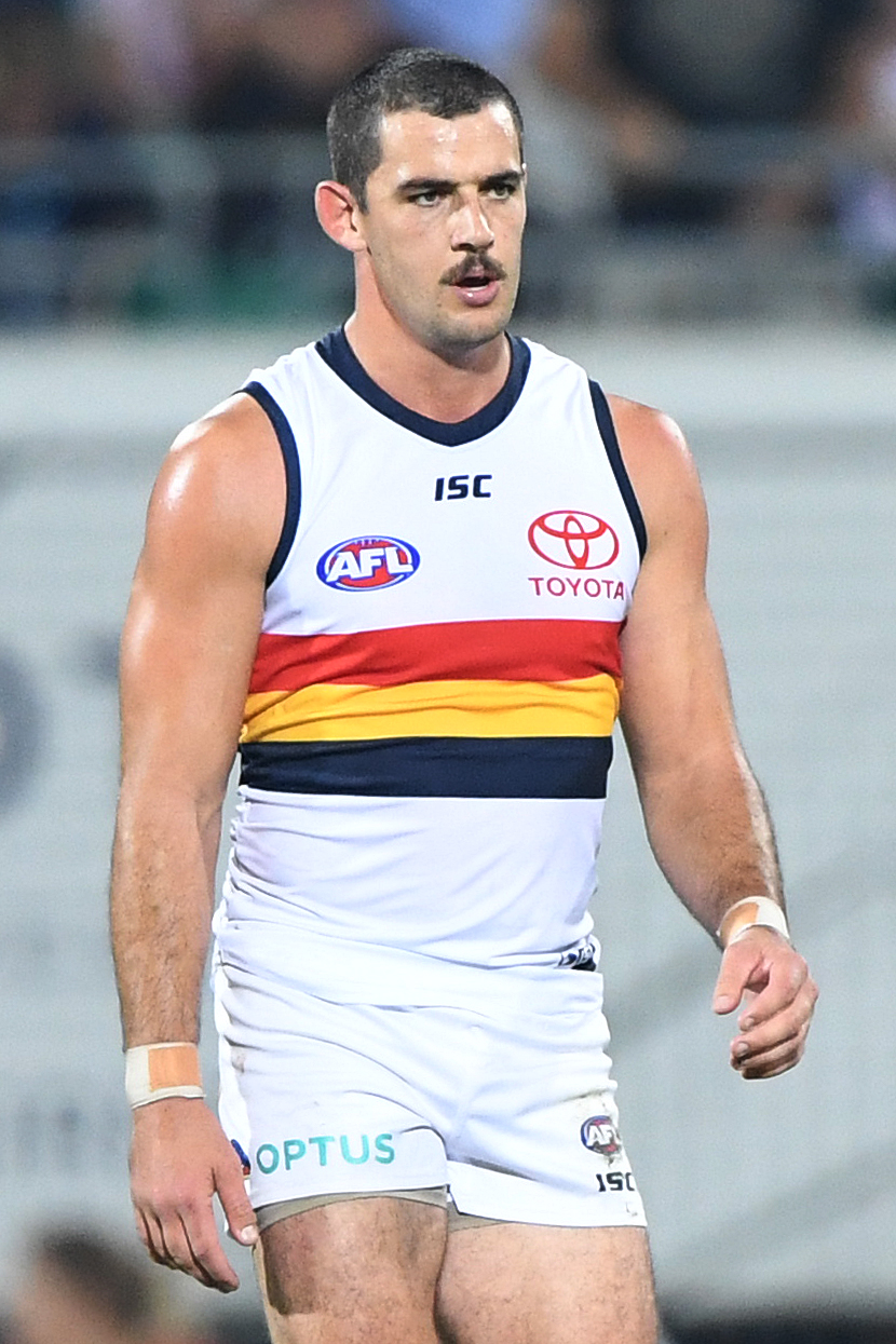 Taylor Walker of Adelaide during the 2019 AFL round 11 match between Melbourne and Adelaide at TIO Stadium on Saturday, 1 June 2019 in Darwin, Northern Territory.